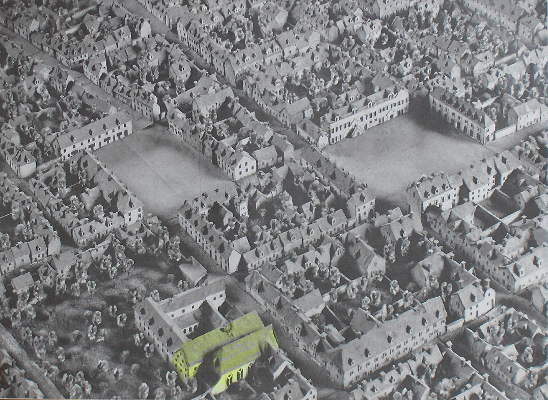 Ostend anno 1700; the Kapucijnenkerk is marked in yellow; next to it one can see the monastery and the convent garden; Kapucijnenkerk, Ostend, Belgium